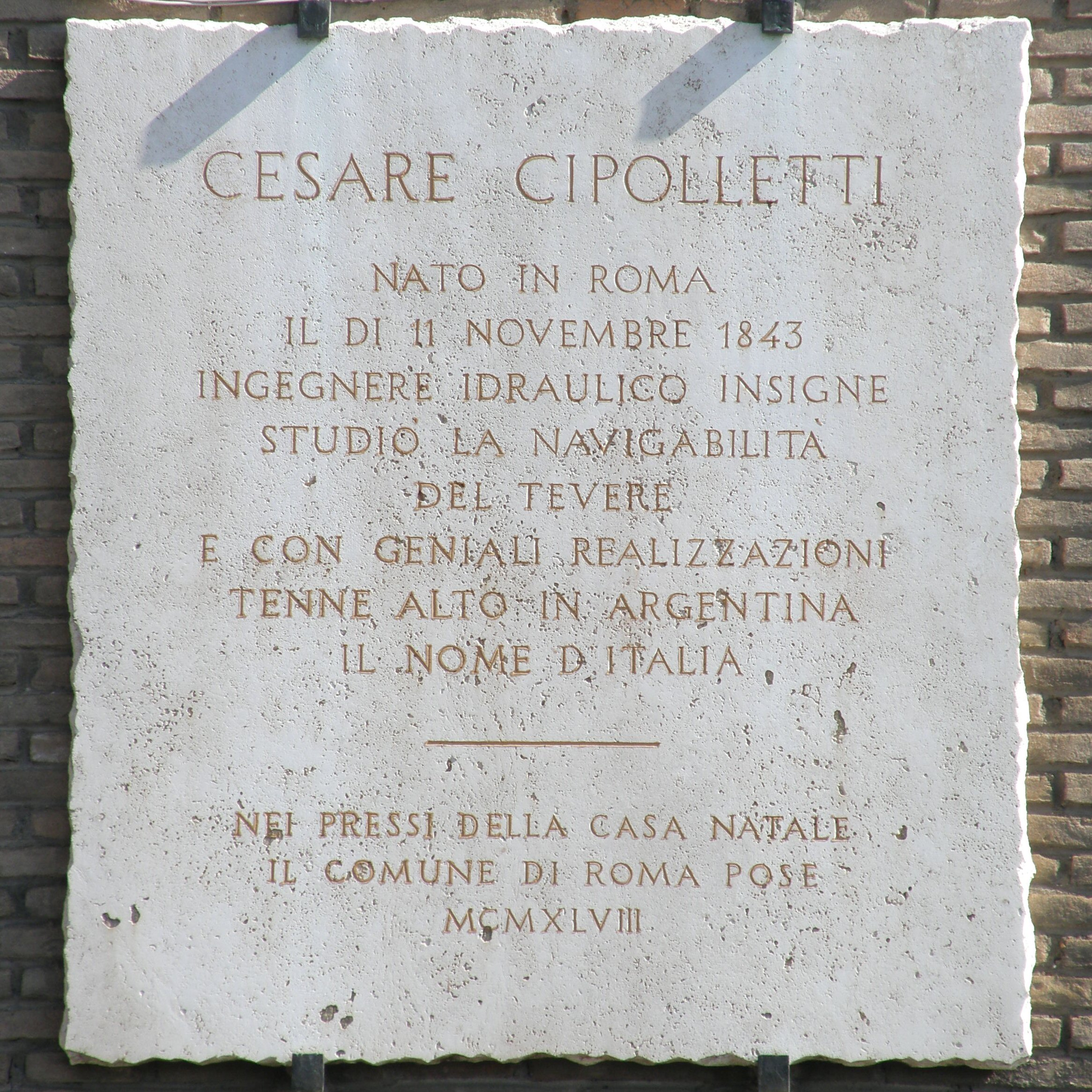 Rome, Italy - Fatebenefratelli square, Tiber Isle - Plaque devoted to Cesare Cipolletti